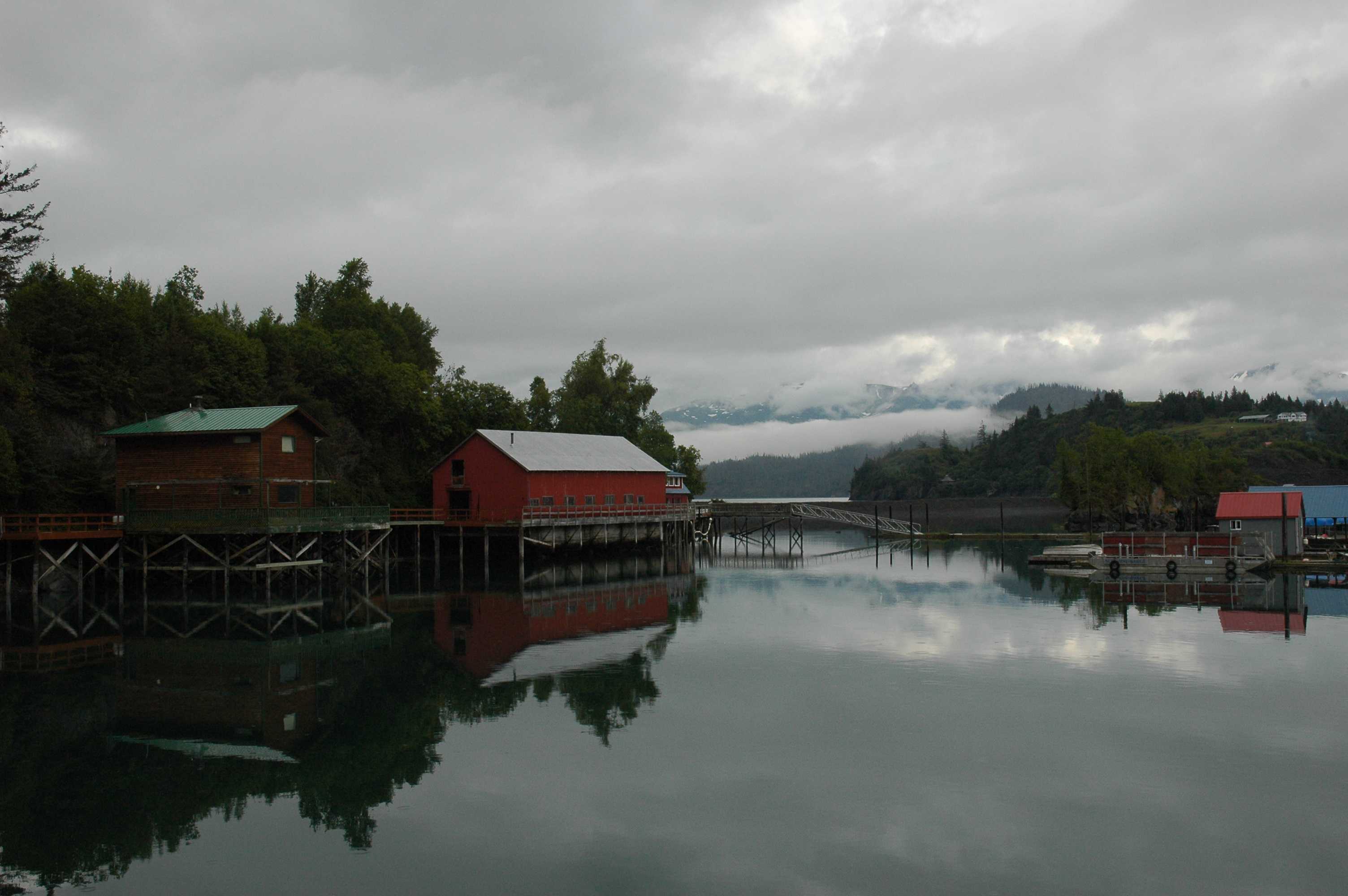 A portion of Halibut Cove, Alaska.